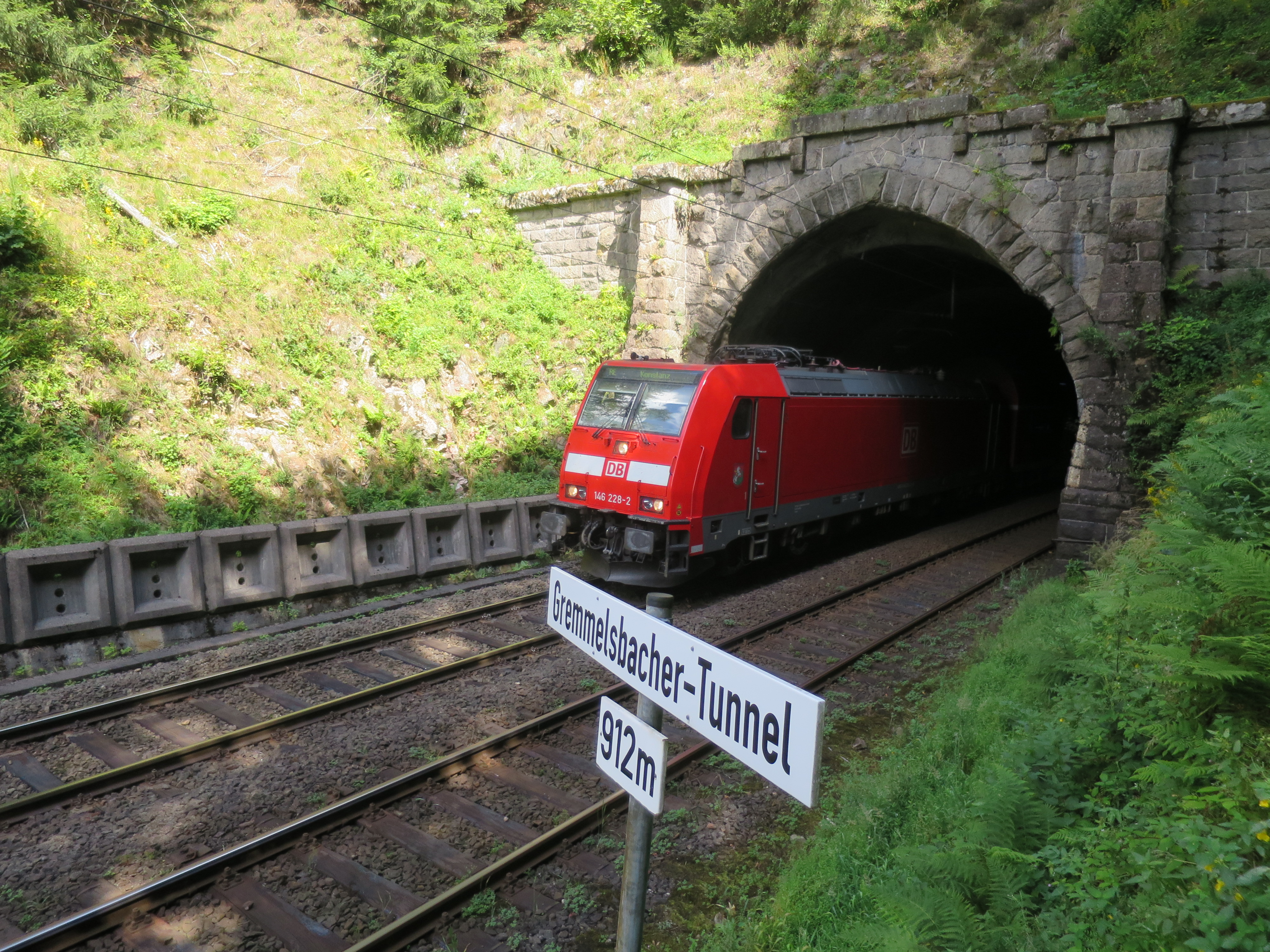 Schwarzwaldexpress, Gremmelsbach-Tunnel